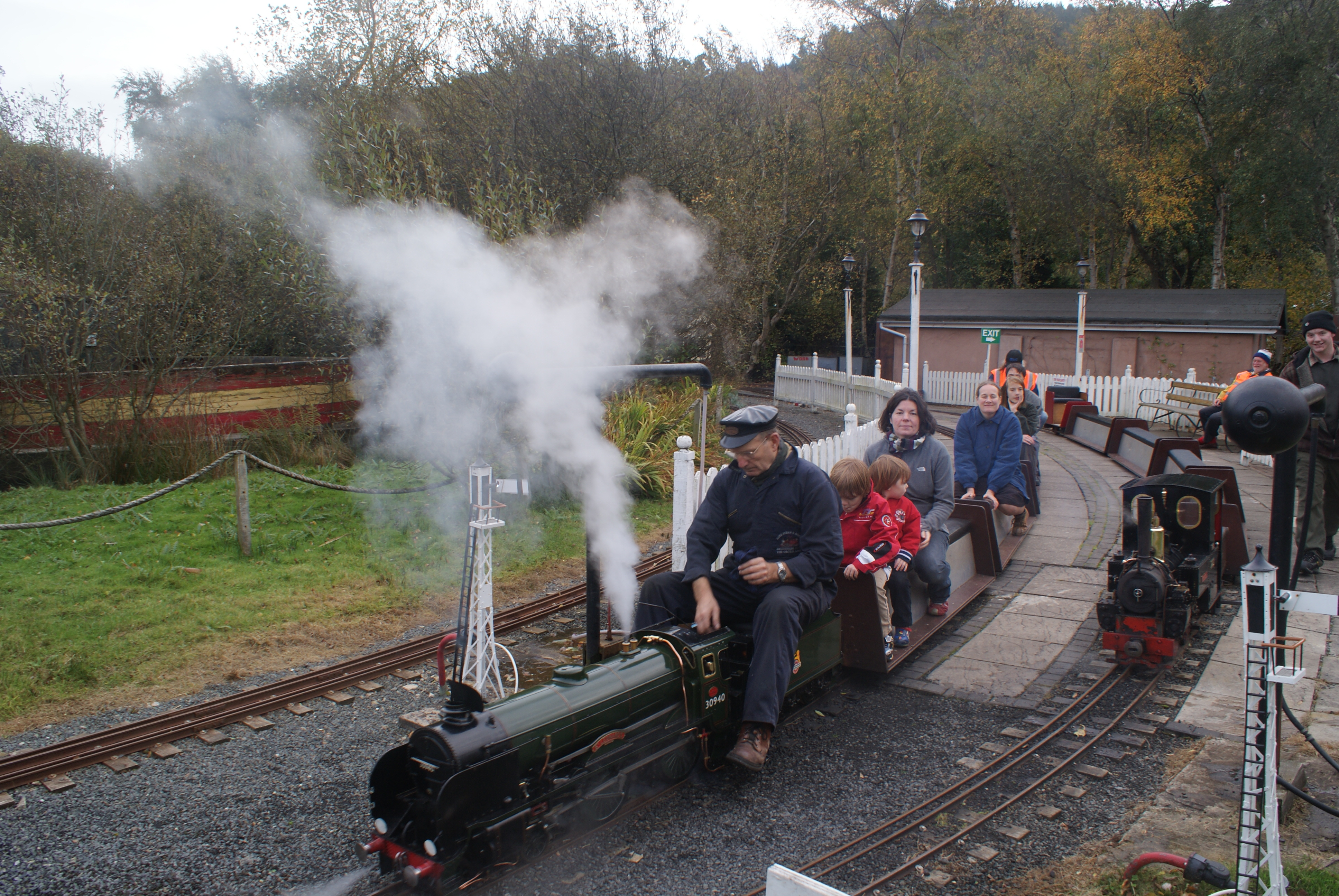 The Orchid Line, Curraghs Wildlife Park, Isle of Man. The loco is a fictitious example of Southern Railway Schools class, number 30940 St Leonards.